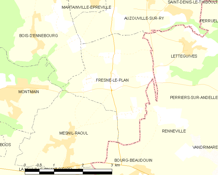 Map of French municipality Fresne-le-Plan